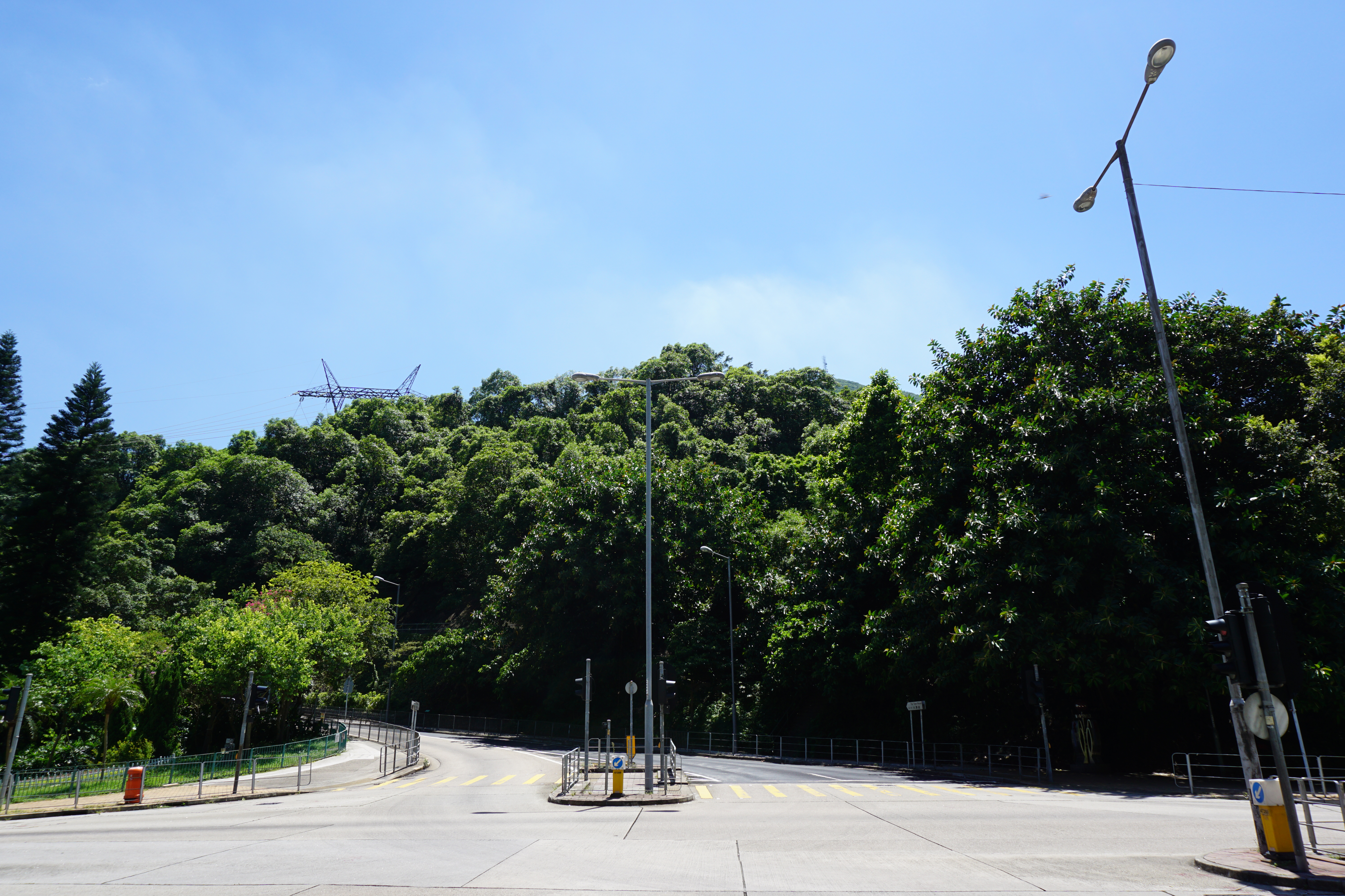 Tai Tam Road in Chai Wan, Hong Kong.